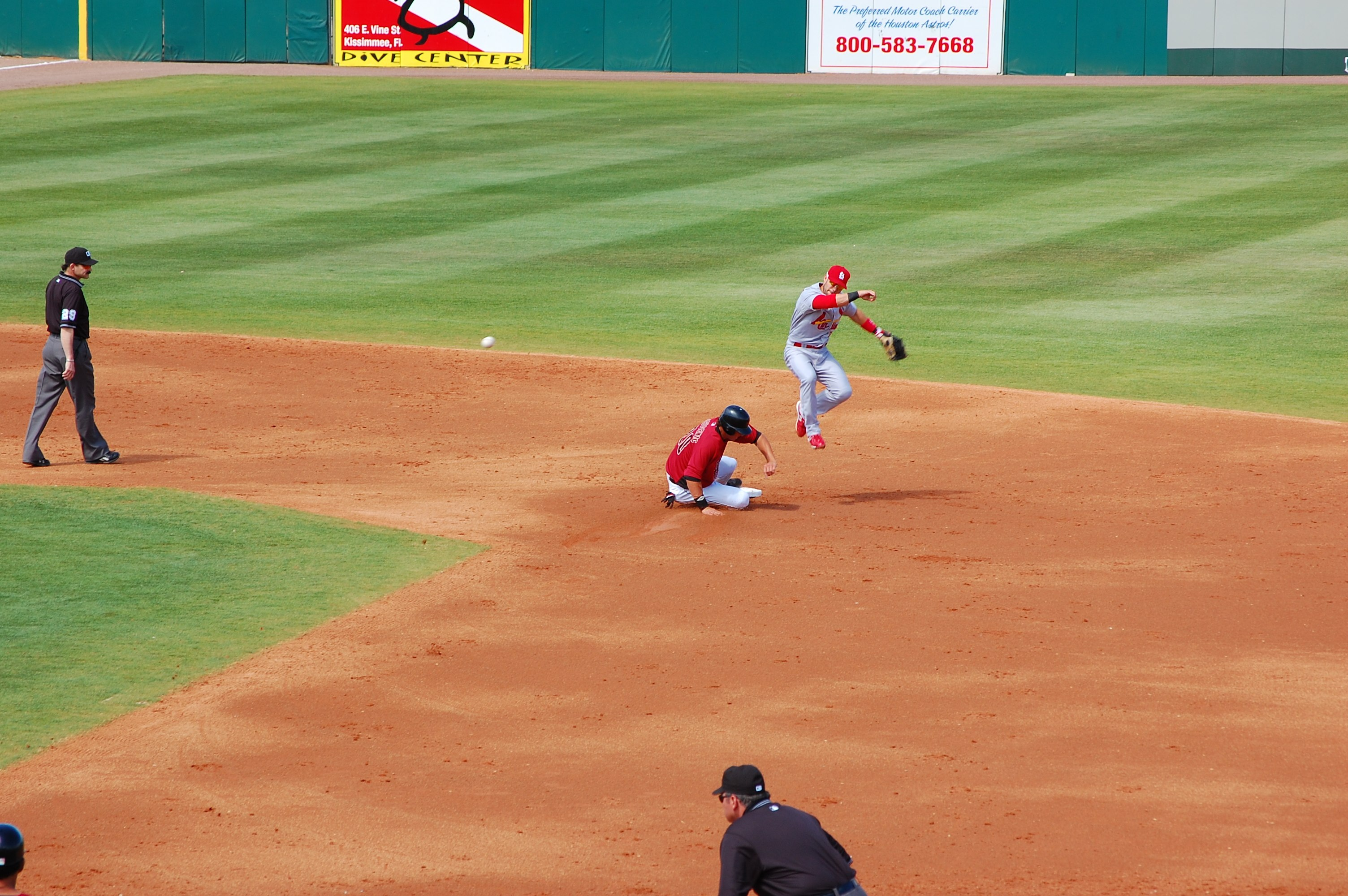 Skip Schumaker of the St. Louis Cardinals throws to first base as he jumps into the air to avoid Brian Bogusevic of the Houston Astros during a spring training game.